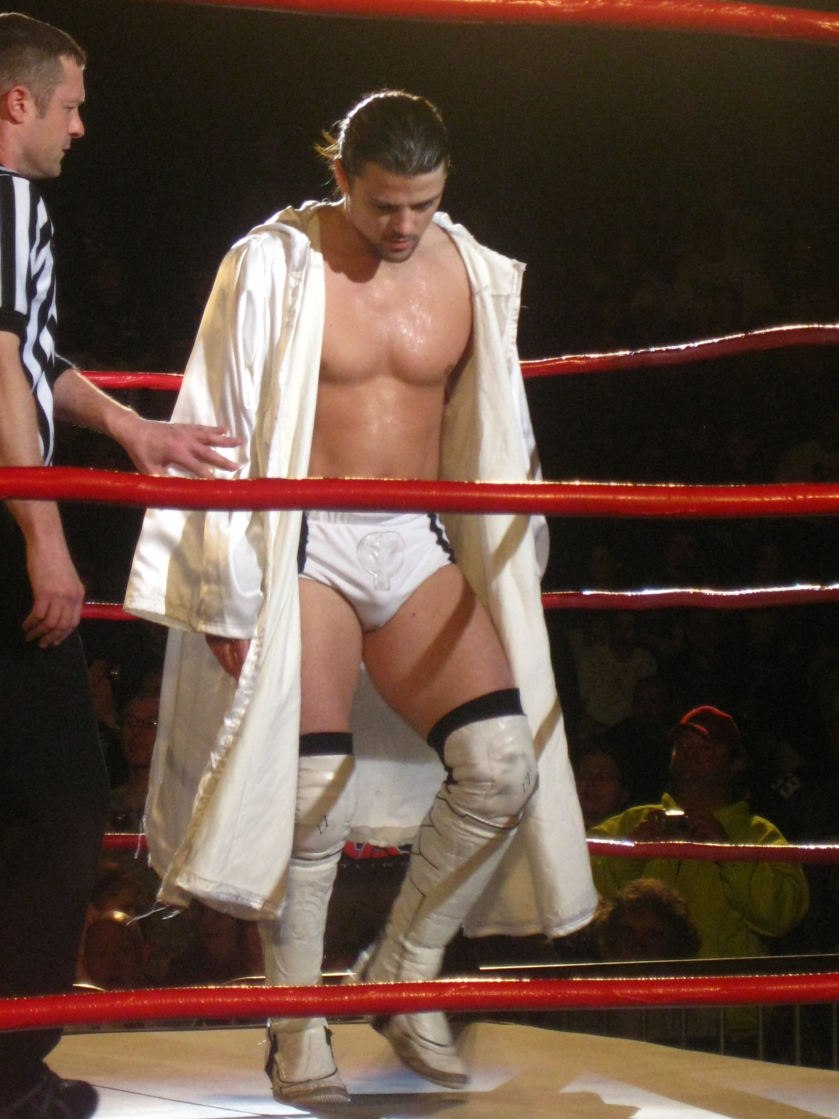 A TNA Live! Even at the ShoWare Center in Kent, WA. No PRO cameras were allowed so I had to put my Canon PowerShot SD1100 IS to work!